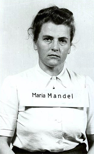 Photograph of Maria Mandl after her arrest by U.S. Army troops on August 10th, 1945.